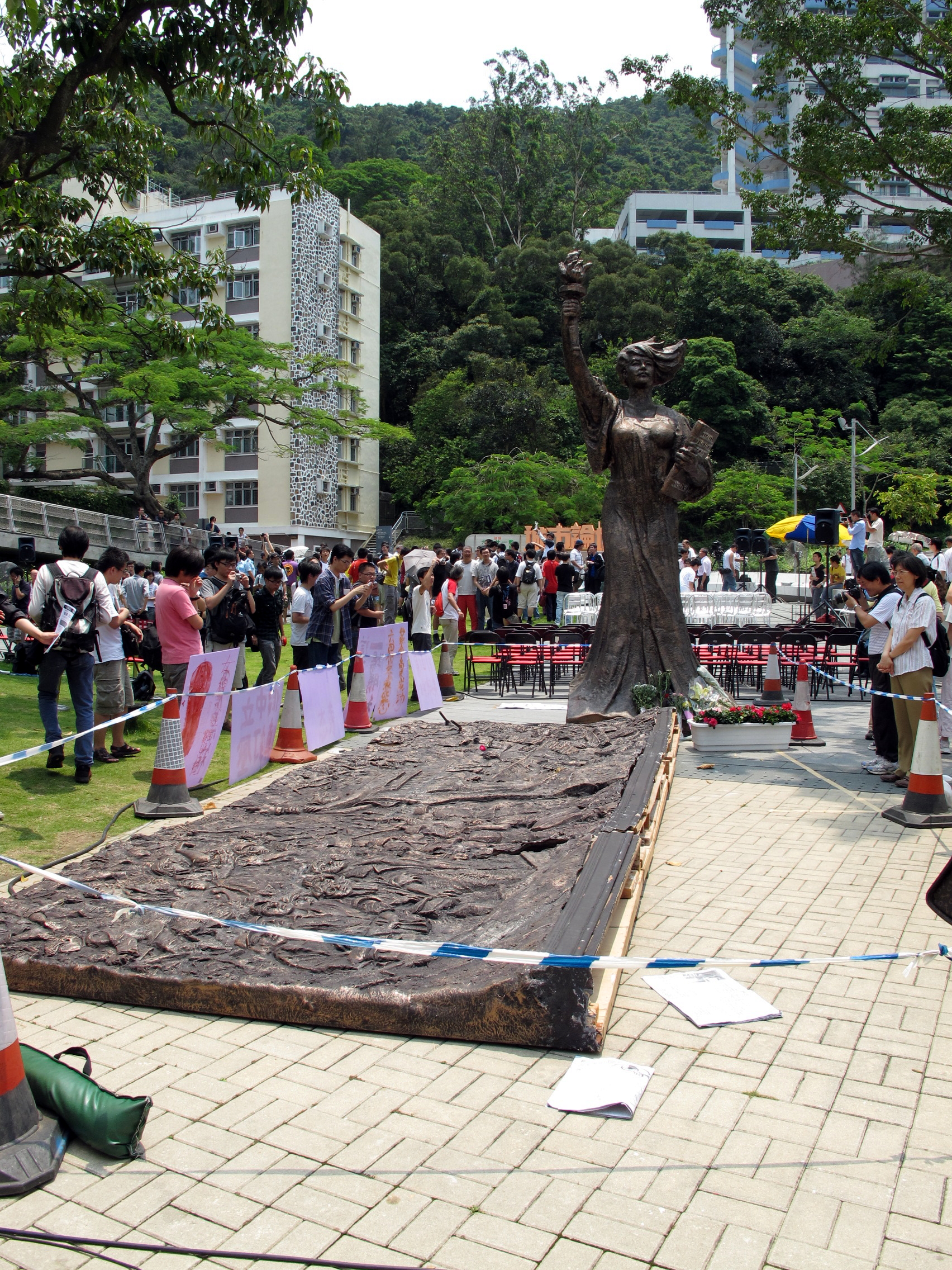 Goddess of Democracy In CUHK 位於香港中文大學民主女神